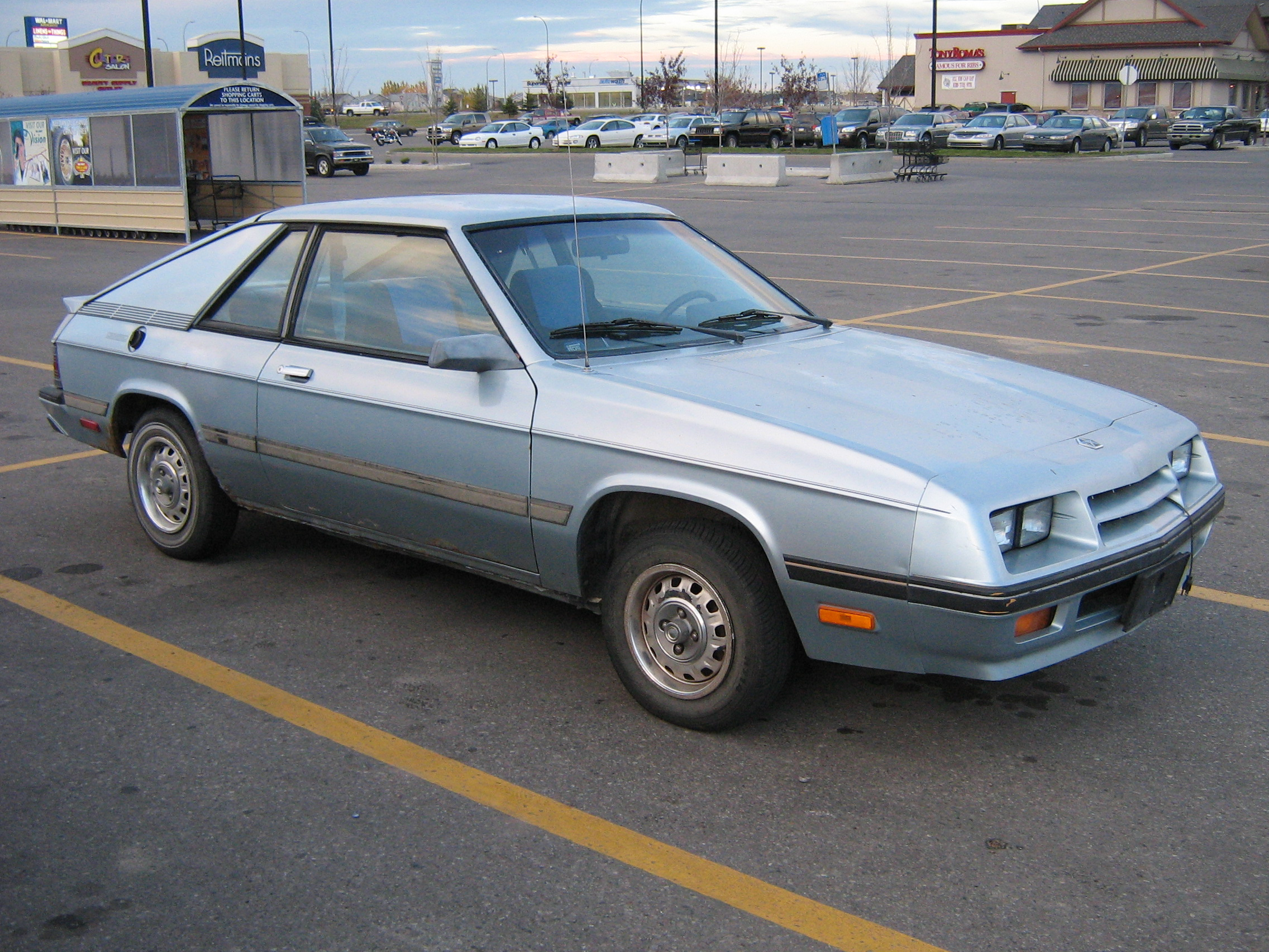 Dodge Charger. I learned to drive on Plymouth Turismo twin of this car. Same colour and everything. This one is probably in better shape though.